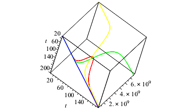 Graphique en trois dimensions